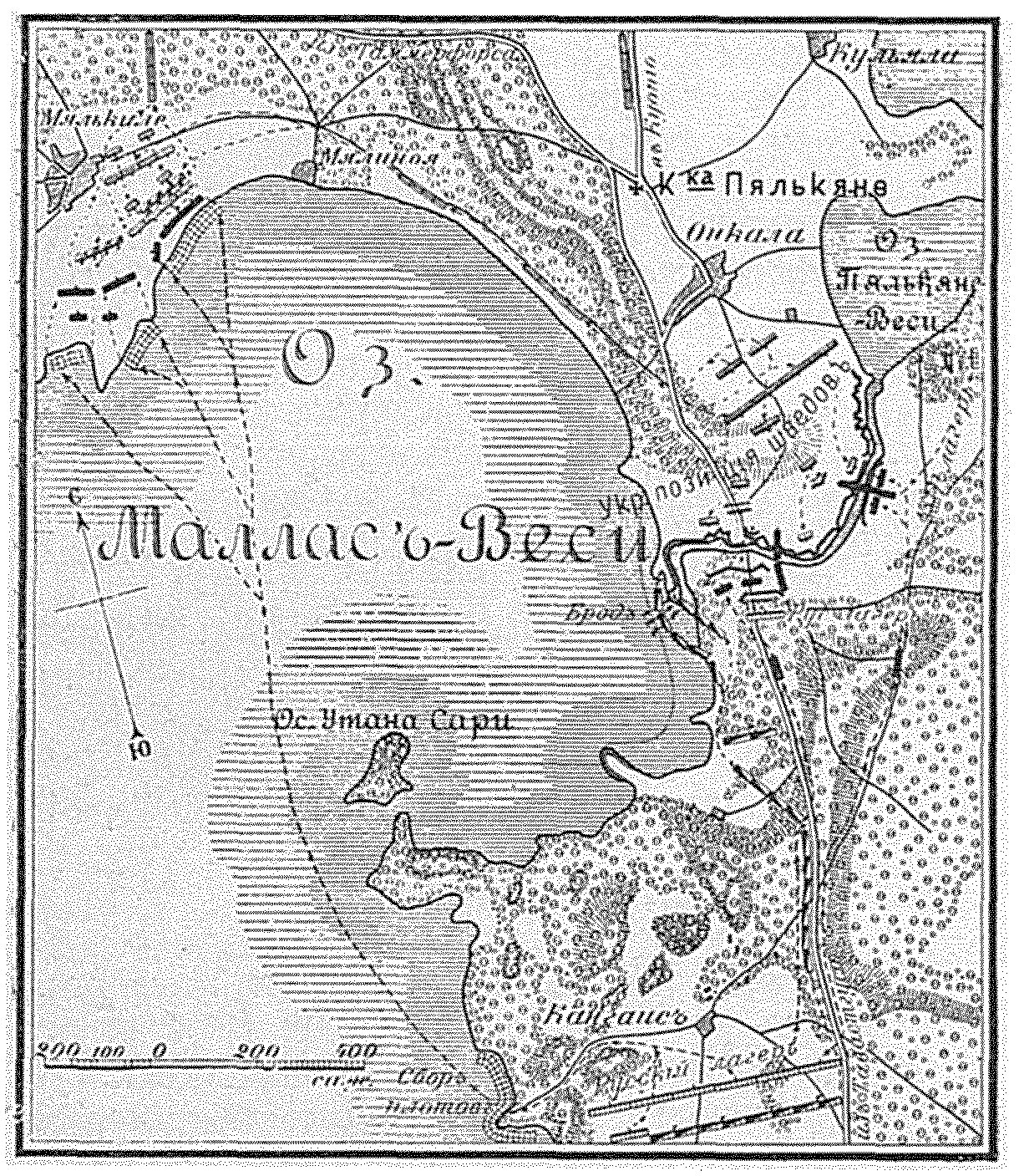 Pälkäne